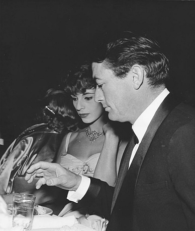 Veronique & Gregory Peck, 1959